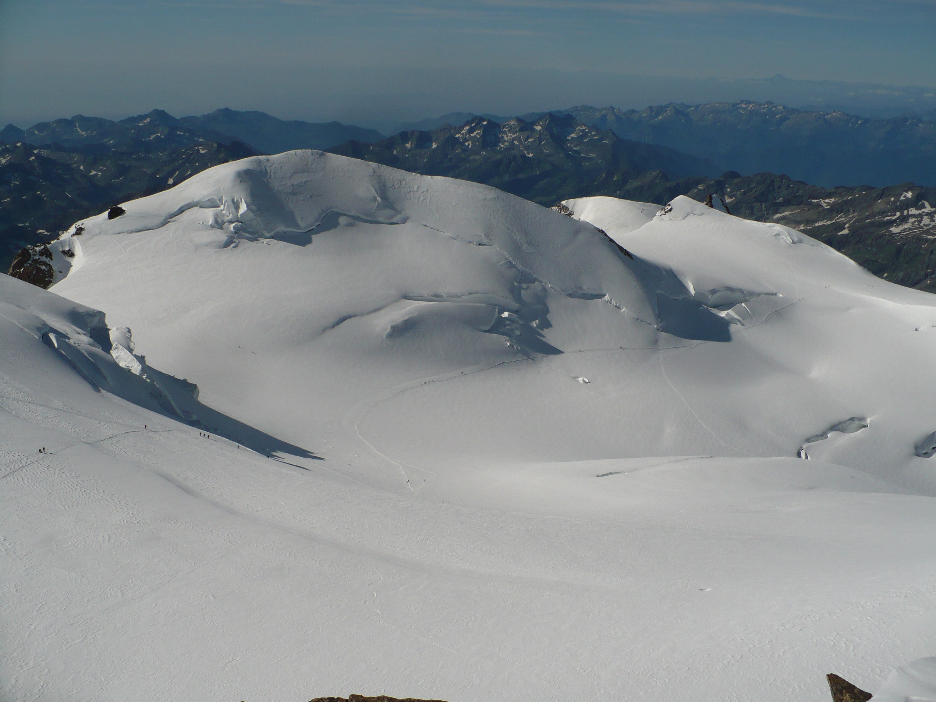 Parrotspitze from Zumsteinspitze - Monte Rosa massif - Pennine Alps